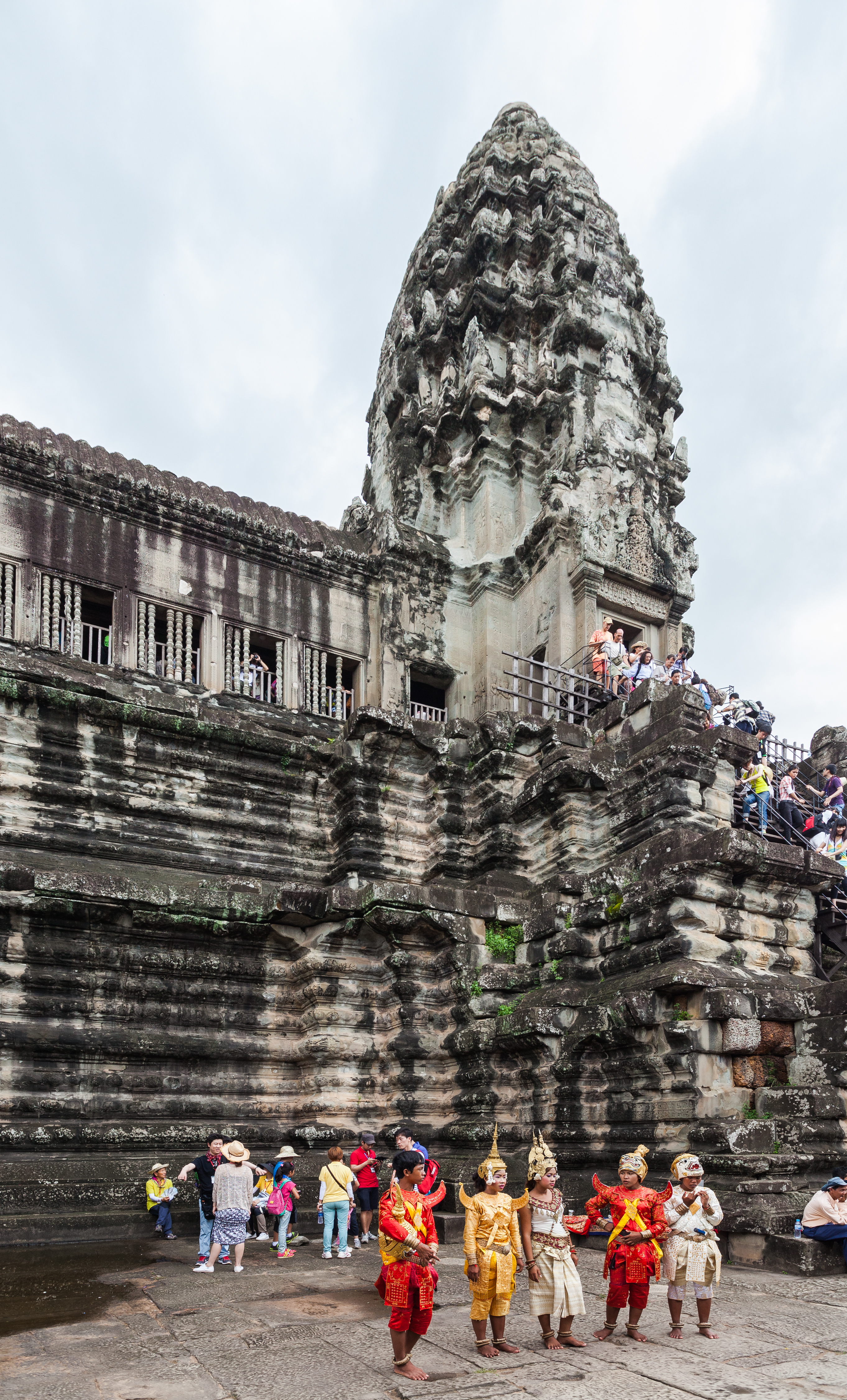 Angkor Wat, Cambodia